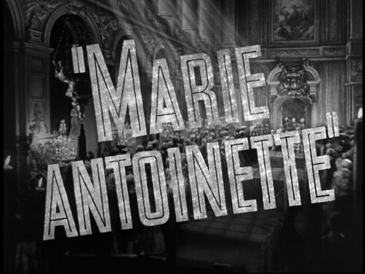 Screenshot form the 1938 trailer of Marie Antoinette Film.